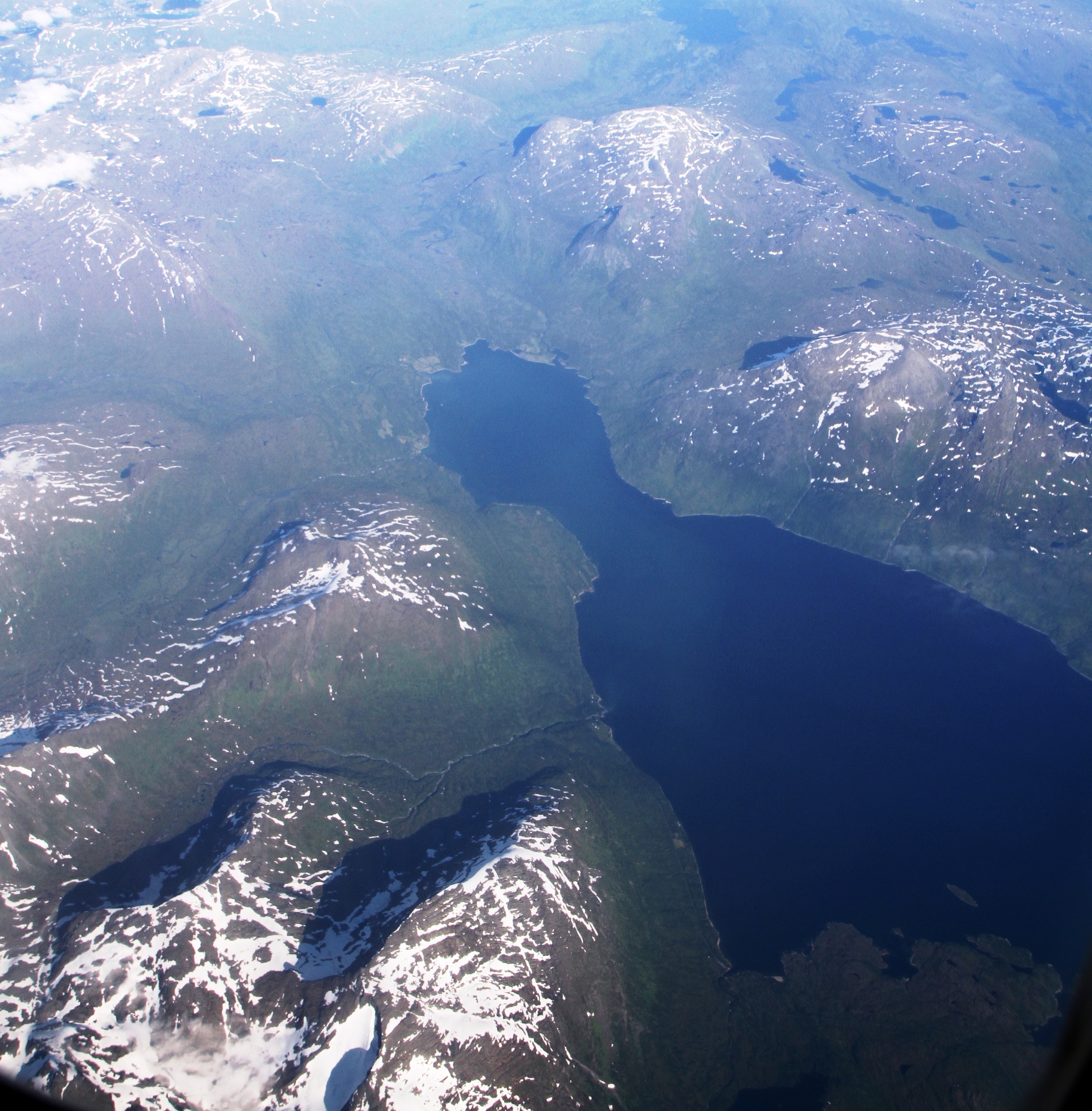 Aerial view from the west towards east, over eastern Hemnes municipality, direction towards Sweden (Västerbotten Län).